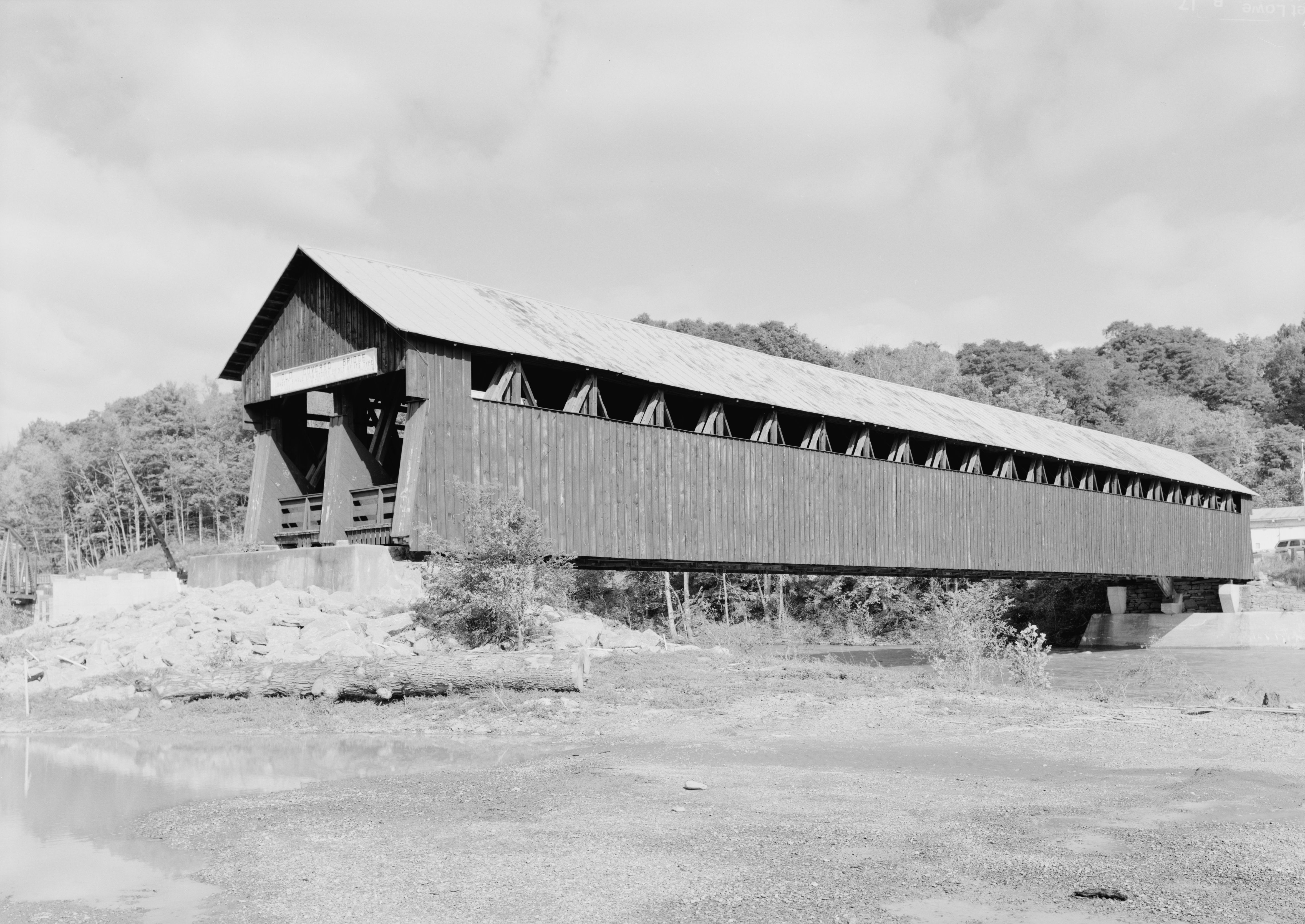 Blenheim Bridge, spanning Schoharie Creek, River Road (now bypassed), North Blenheim, Schoharie County, NY.